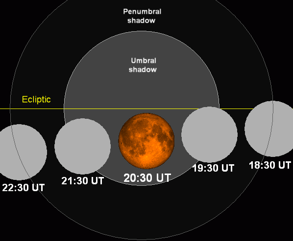 May 2004 lunar eclipse chart of moon's total lunar eclipse path through the earth's shadow. thumb